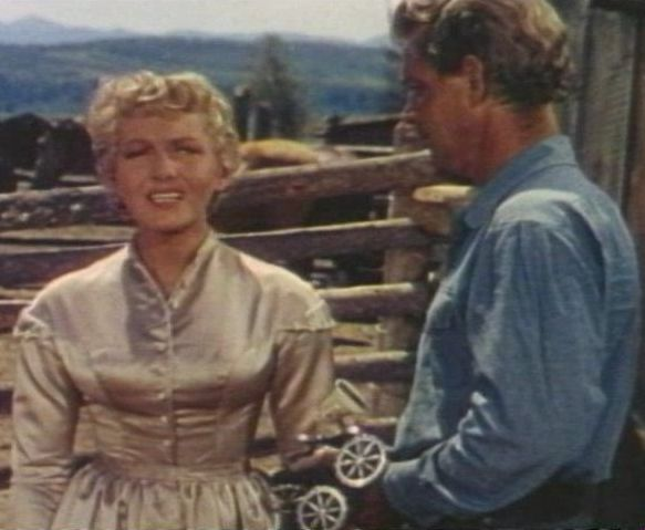 Cropped screenshot of Jean Arthur from the trailer for the film Shane